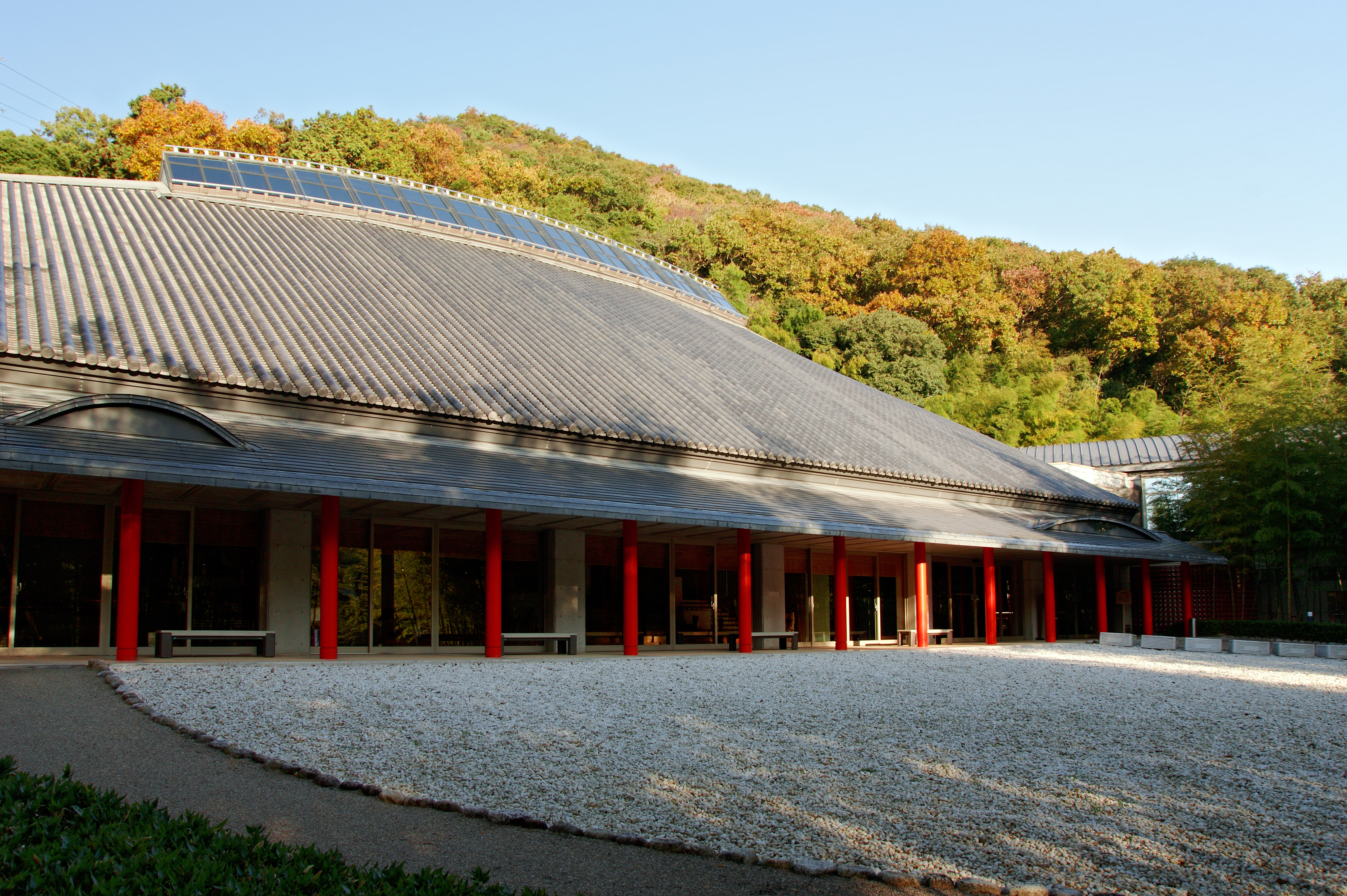 Shosha Art and Craft Museum, Himeji, Hyogo prefecture, Japan